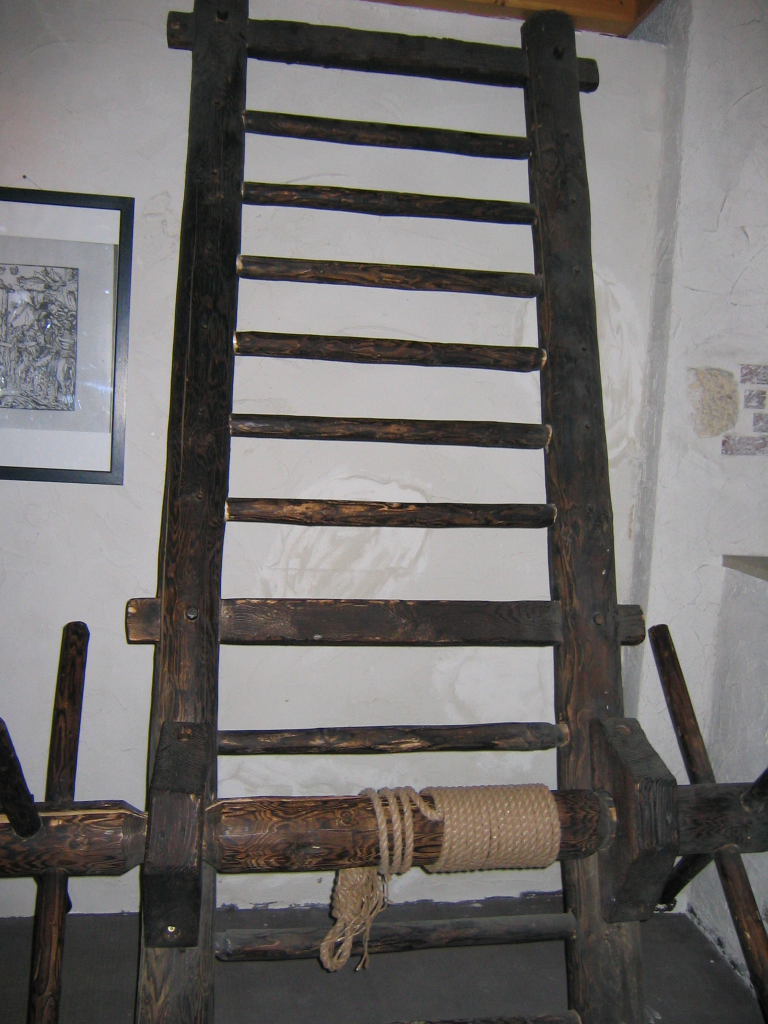 Torture ladder at the torture museum in Freiburg im Breisgau